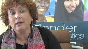 Linda Laura Sabbadini, Statistica Sociale Italiana.